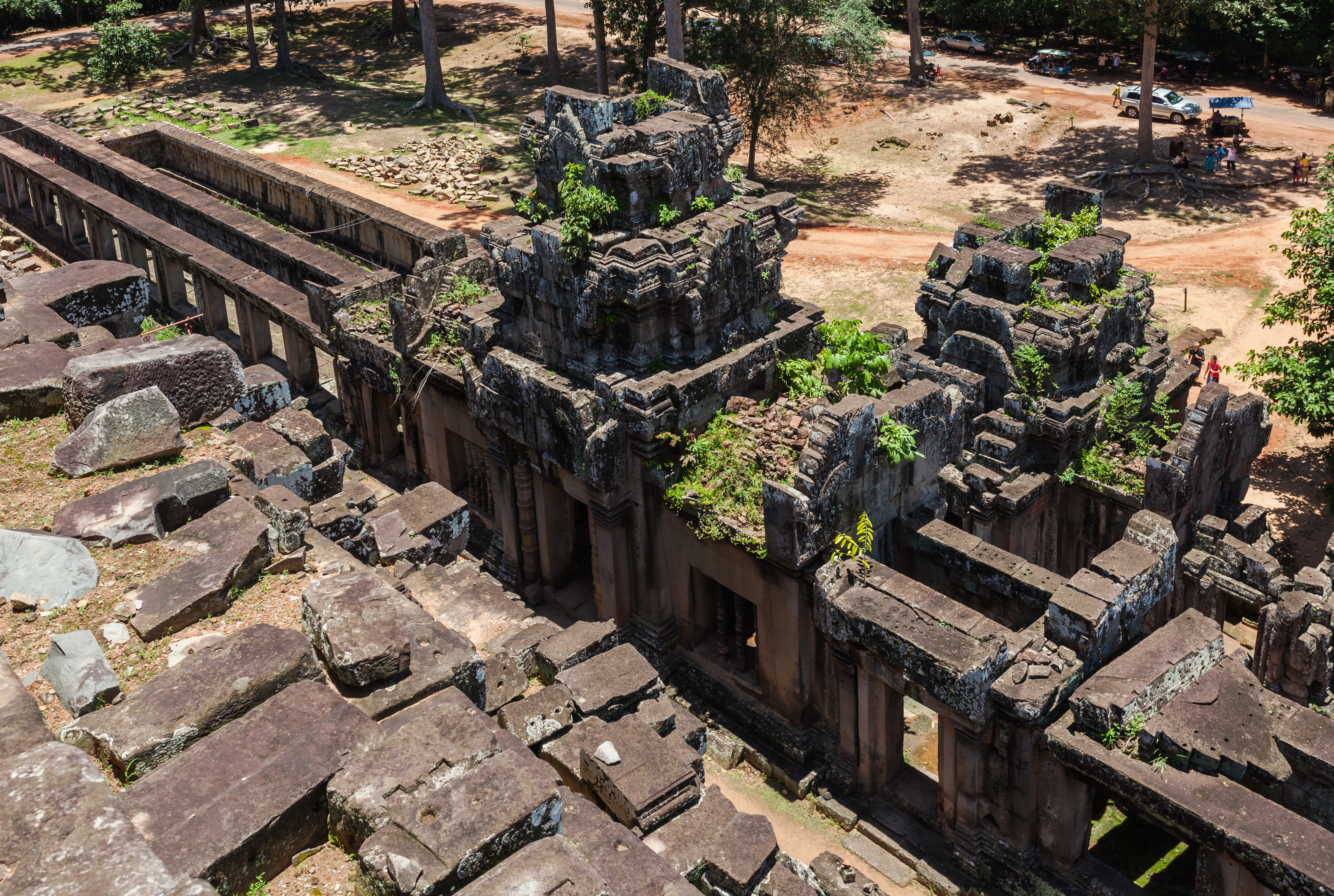 Ta Keo, Angkor, Cambodia